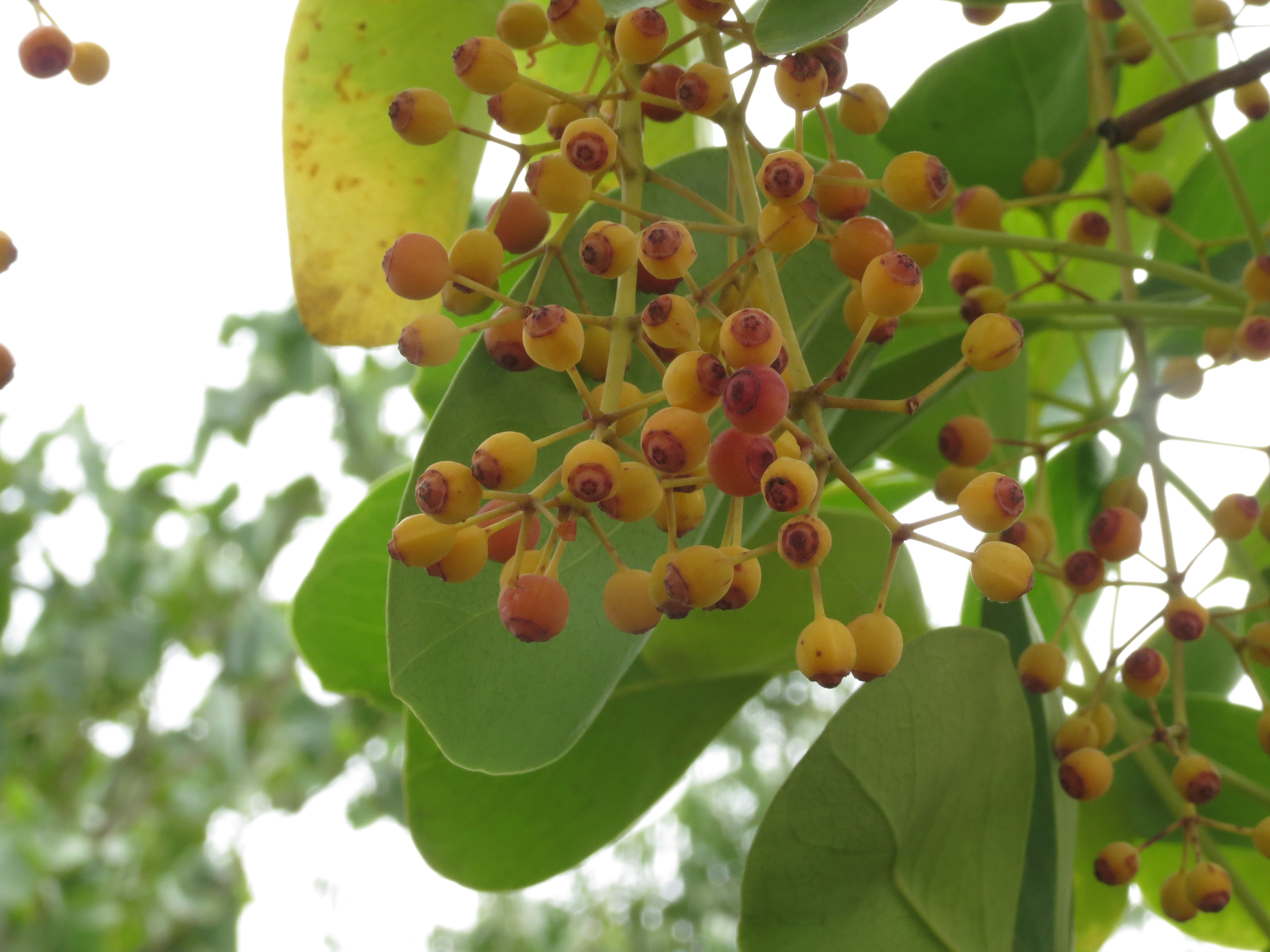 Schefflera stellata in FRLHT bangalore